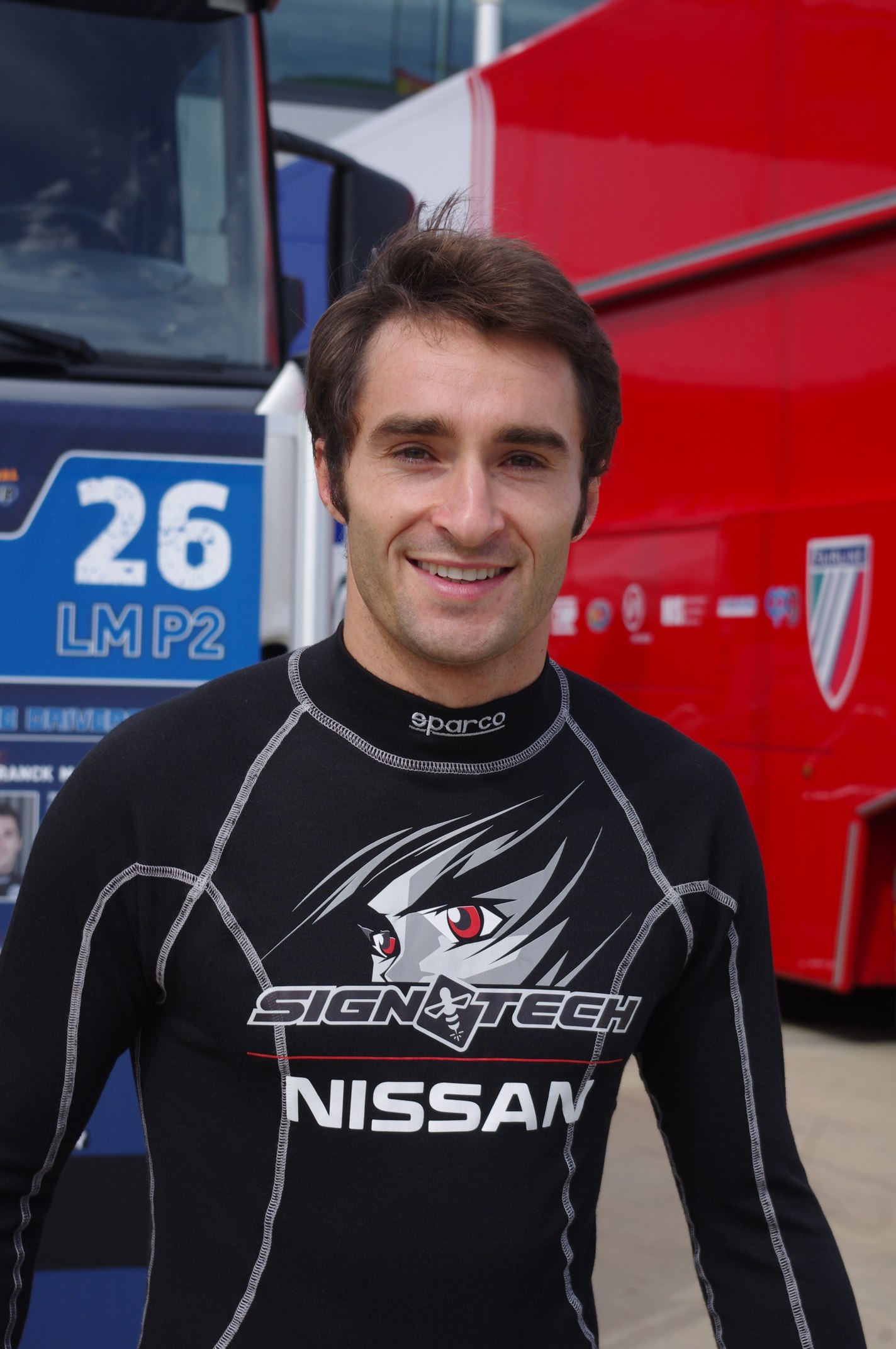 Franck Mailleux at 2011 Silverstone 6 Hours.